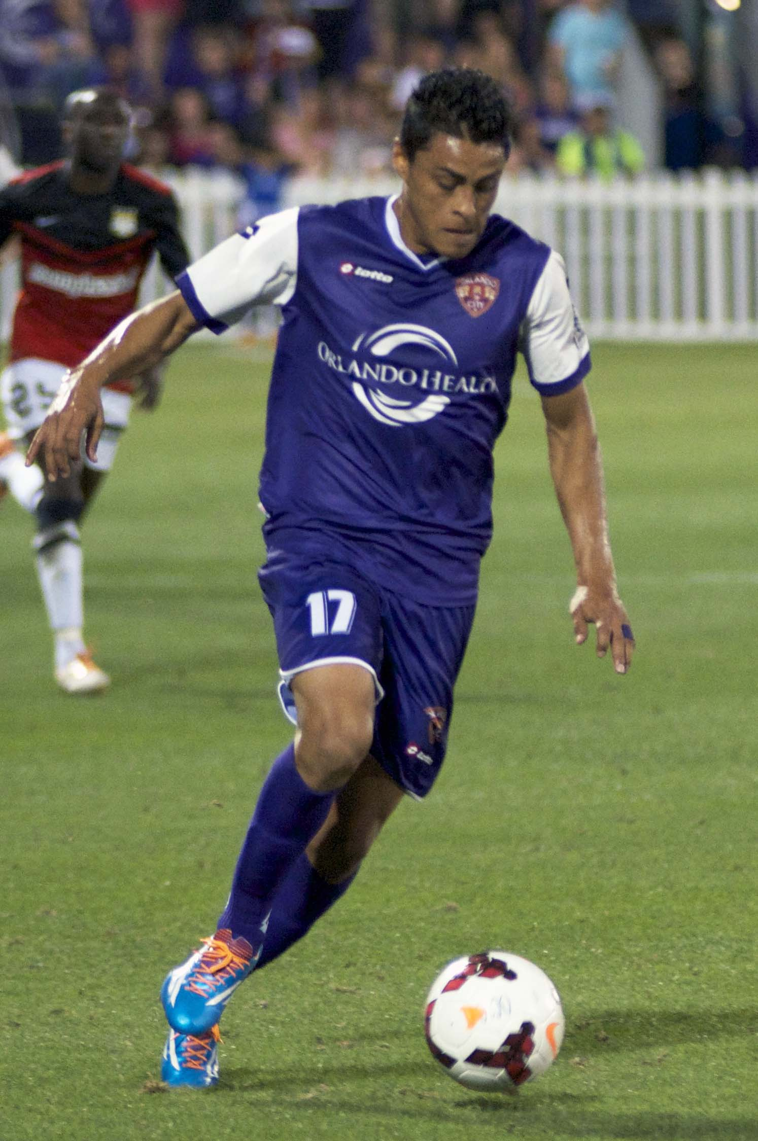 Darwin Cerén playing for Orlando City SC on 4-12-14 against the Charleston Battery